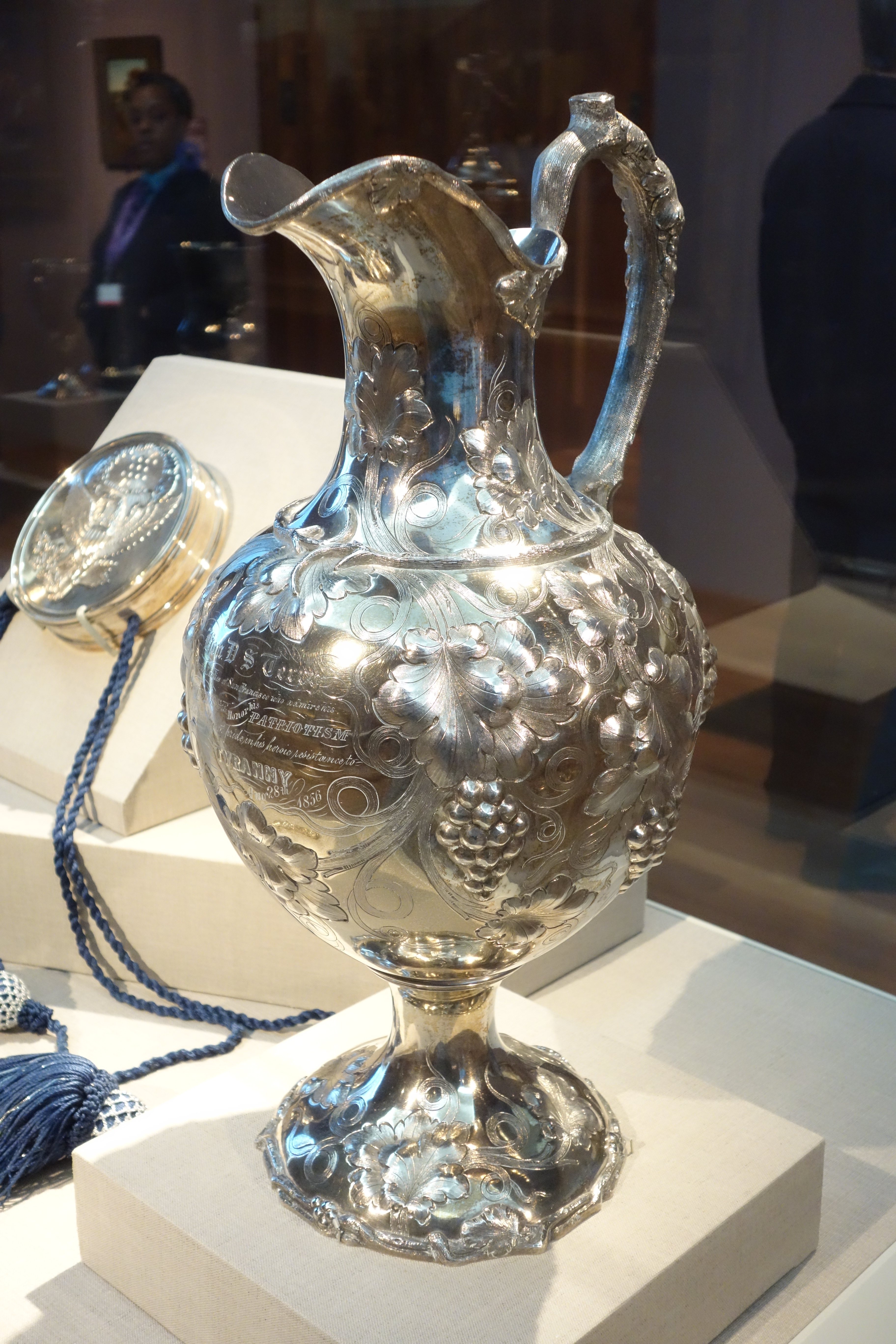 Exhibit in the De Young Museum, San Francisco, California, USA. This artwork is in the public domain because the artist died more than 70 years ago.